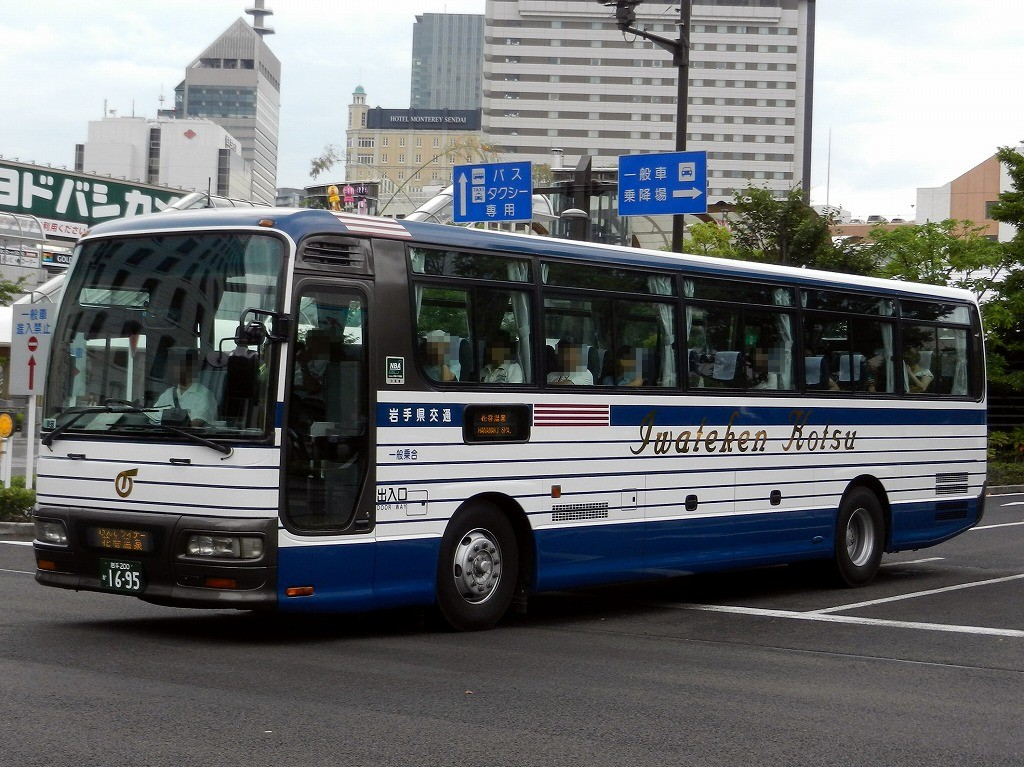 Iwateken Kotsu Isuzu Gala (KL-LV781R2)Highwaybus "Kenji-liner"(Hanamaki,Kitakami-Sendai)